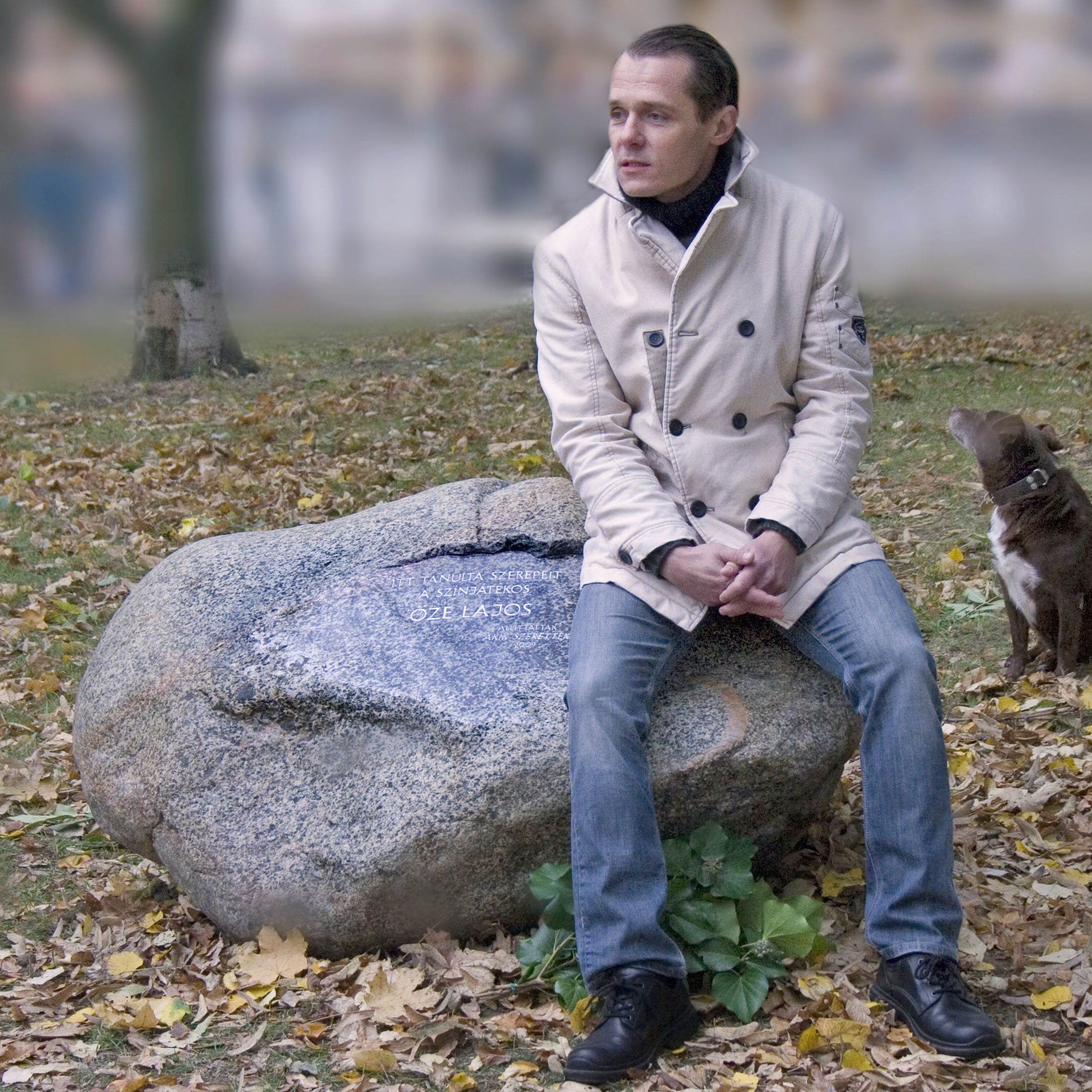 Hungarian actor, and theater director: Aron Oze